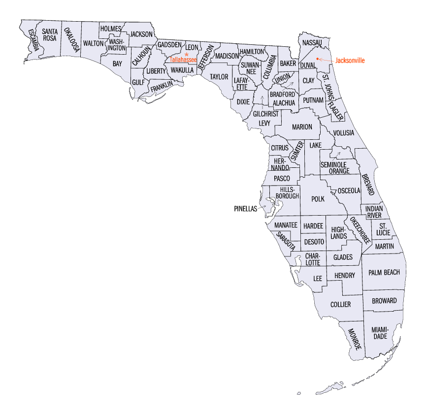 Map of Florida's counties. Transwiki approved by: User:Dmcdevit